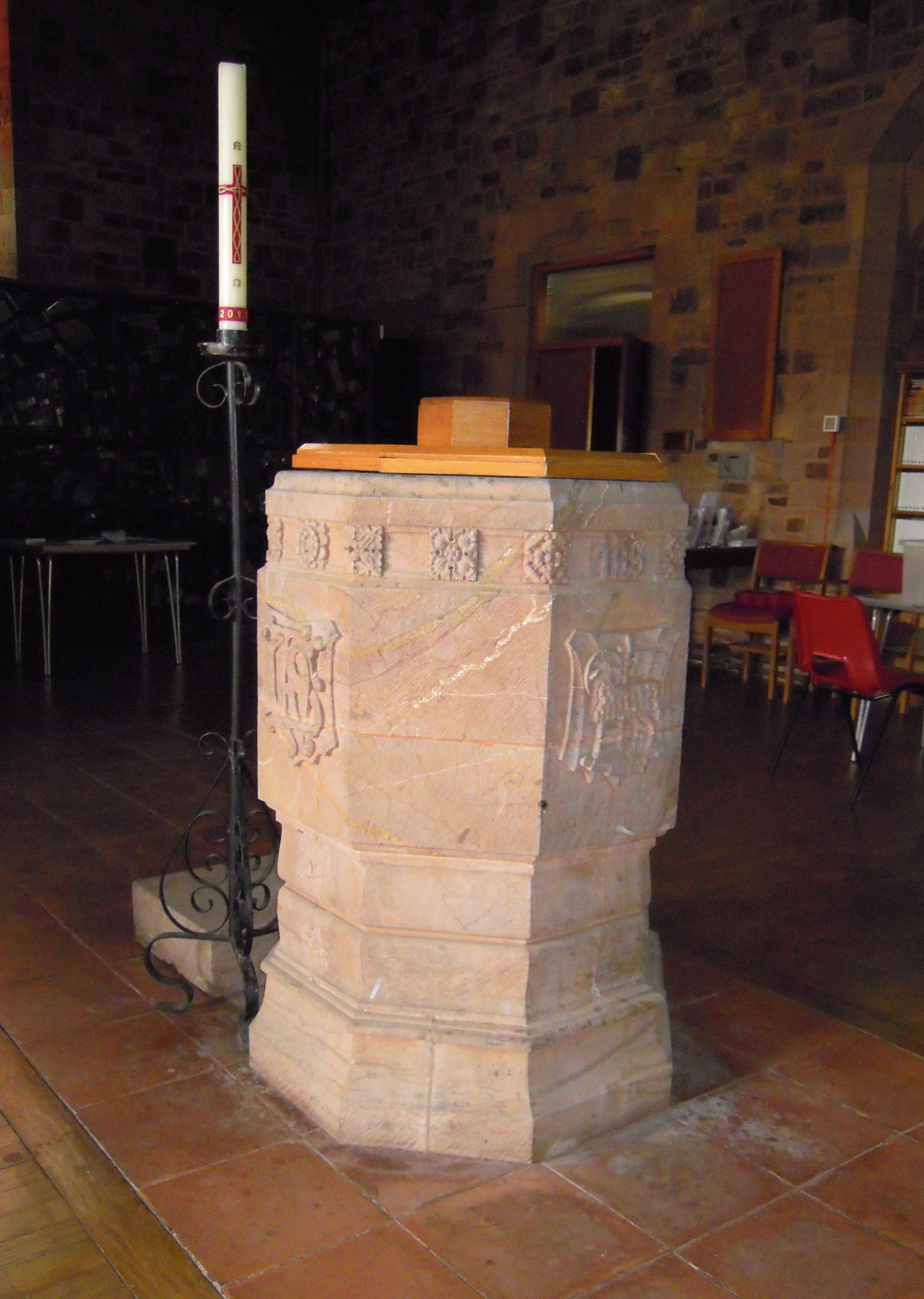 The baptismal font at the Church of St Sabinus in Woolacombe in Devon